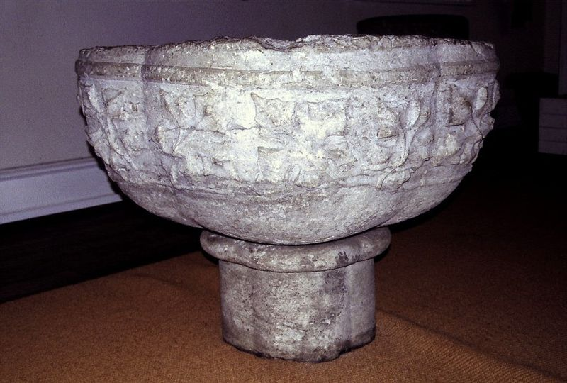 Baptismal font from Tirsted Kirke (church) at Maribo stiftsmuseum.